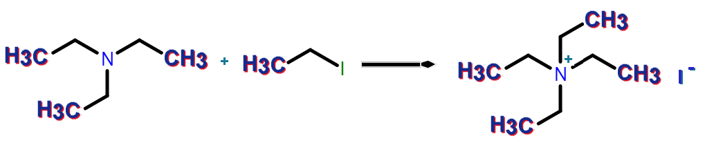 Tetraethylammonium iodide synthesis